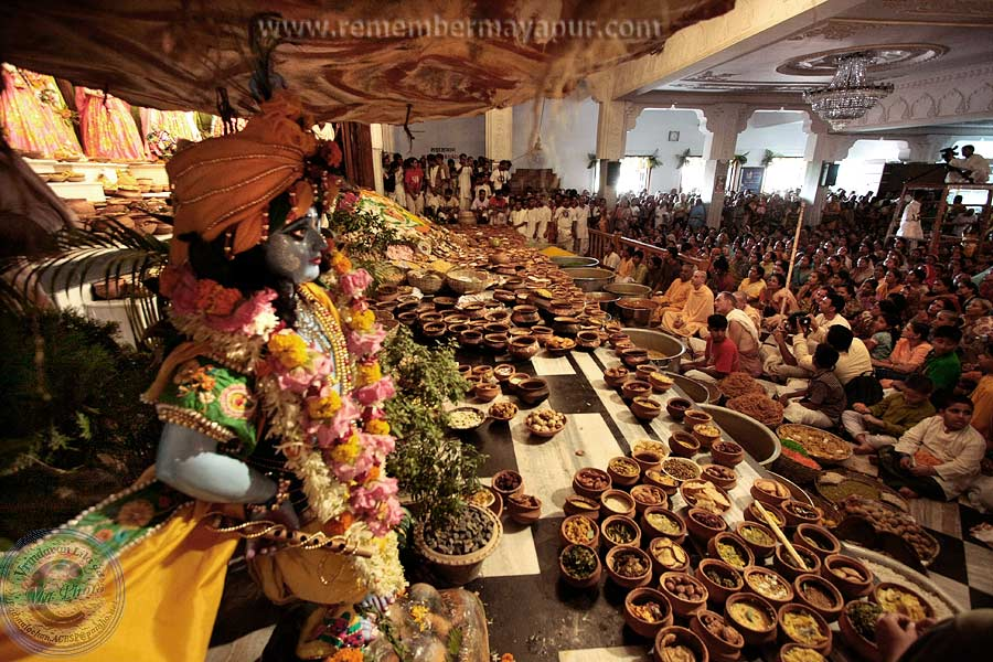 Bhoga offering to Sri Sri Radha-Madhava in Mayapur Czandrodaja Mandir